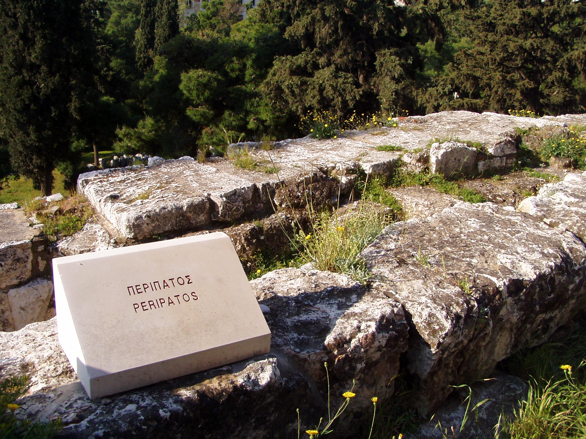 This file shows the stoa of Eumenes next to the peripatos who's situated near the Acropolis in Athens.